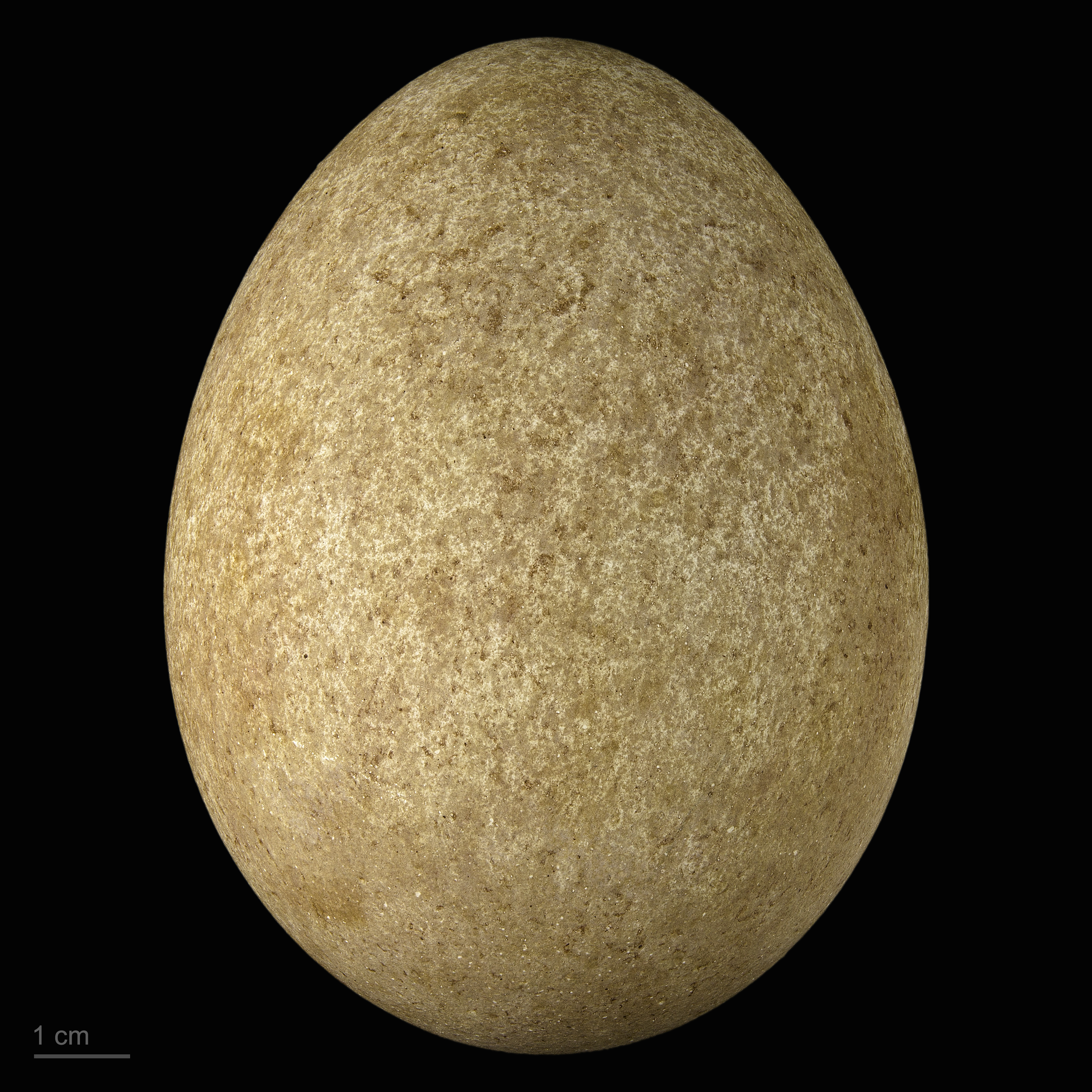 Egg of lappet-faced vulture collection of Jacques Perrin de Brichambaut.